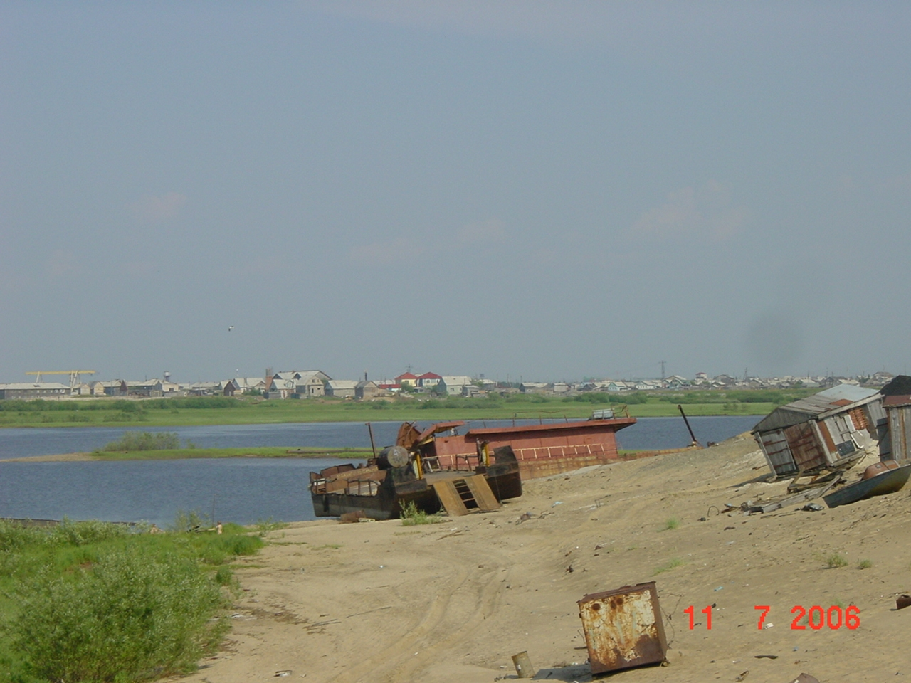 View of Naryan-Mar by the Pechora River.